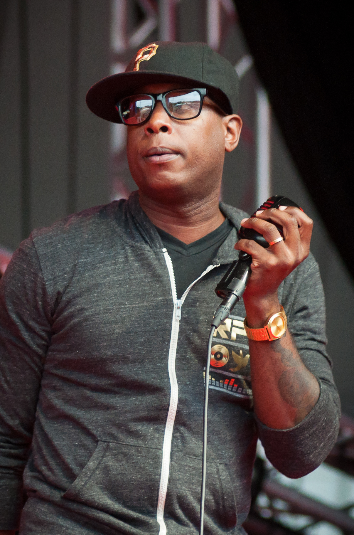 Talib Kweli performing at the 2012 Ilosaarirock Festival in Joensuu, Finland.